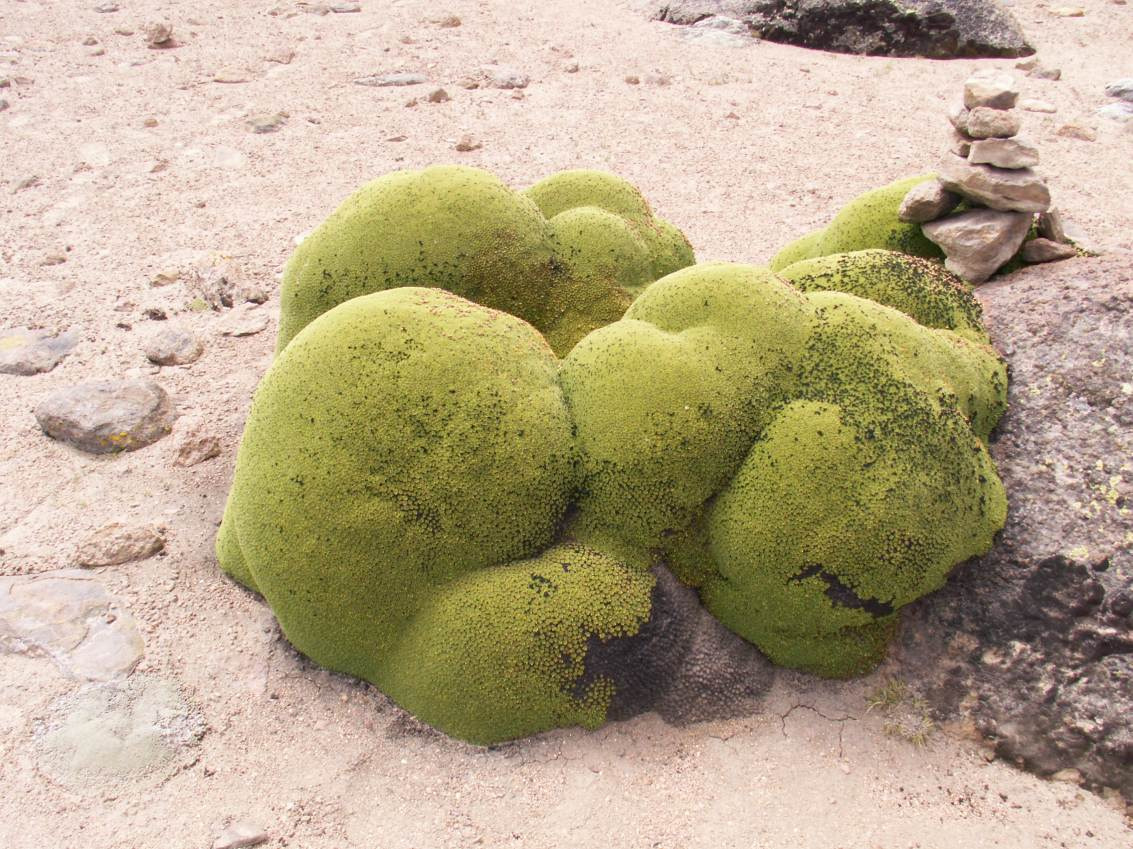 Azorella compacta in Peru on the road between Arequipa and Chivay, a little bit before the "Mirador de los Andes pass", elevation of 4,910 m.